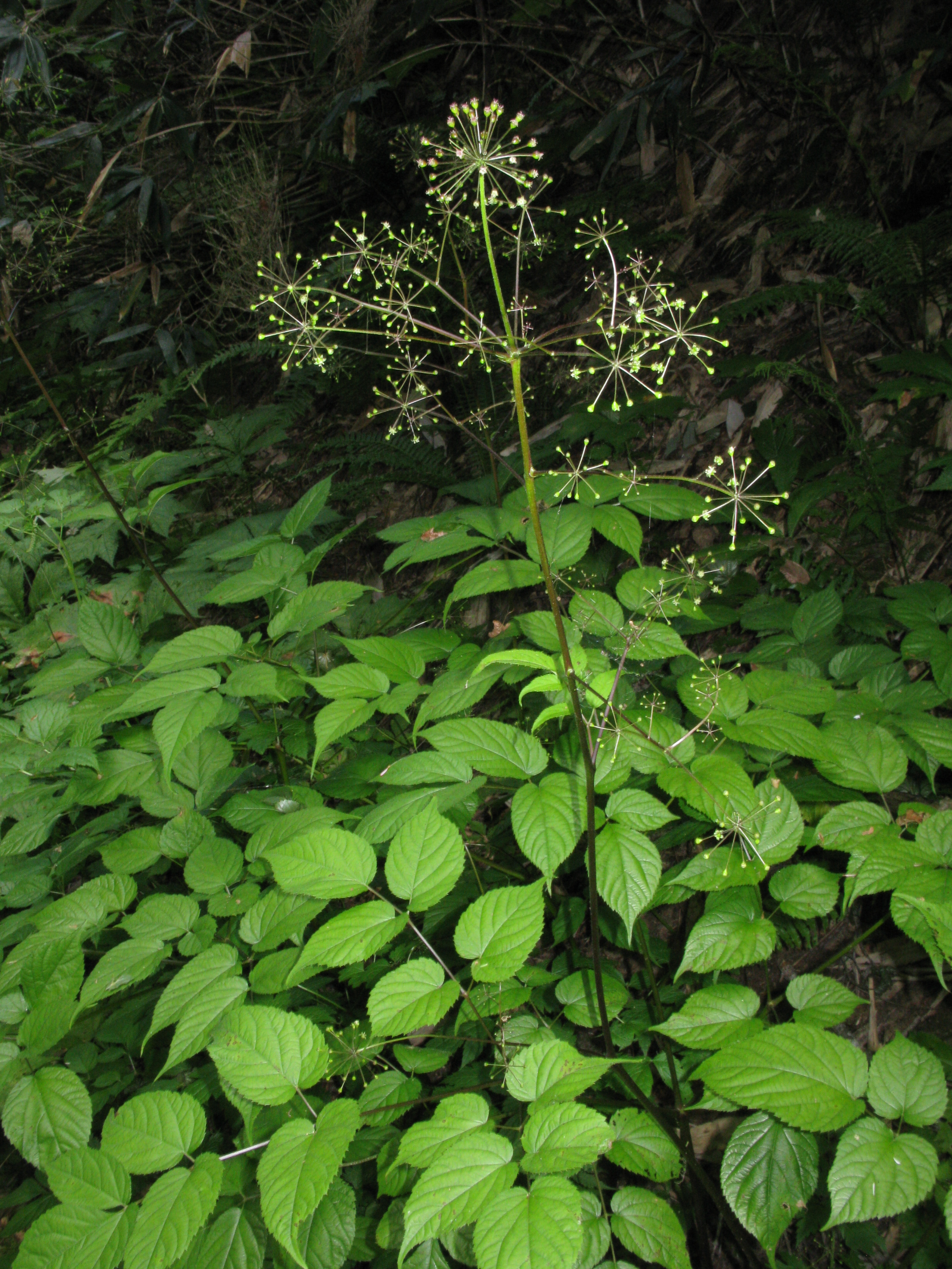 Aralia glabra, Mount Hiuchi, Fukushima pref., Japan